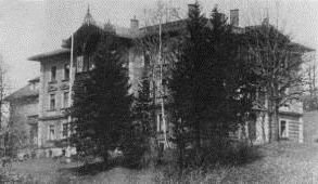 Reifensteiner Schule Miesbach Wirtschaftliche Frauenschule, später Landfrauenschule Miesbach in Oberbayern, vorher Geiselgasteig 1903 bis heute Besitzer Bayrischer Verein für wirtschaftliche Frauenschulen auf dem Lande, ab 1932 Verein für die Wirtschaftliche Frauenschule Miesbach und das Landwirtschaftliche Lehrgut Straß-Moos. Dem Reifensteiner Verband seit 1903 angeschlossen. Ab 1977 Staatliches Berufsbildungszentrum für Hauswirtschaft mit Berufsfachschule, Berufsoberschule und Fachakademie für Hauswirtschaft. Heute: Staatliches Berufliches Schulzentrum mit Berufsfachschule Kinderpflege, Berufsfachschule Ernährung und Versorgung.